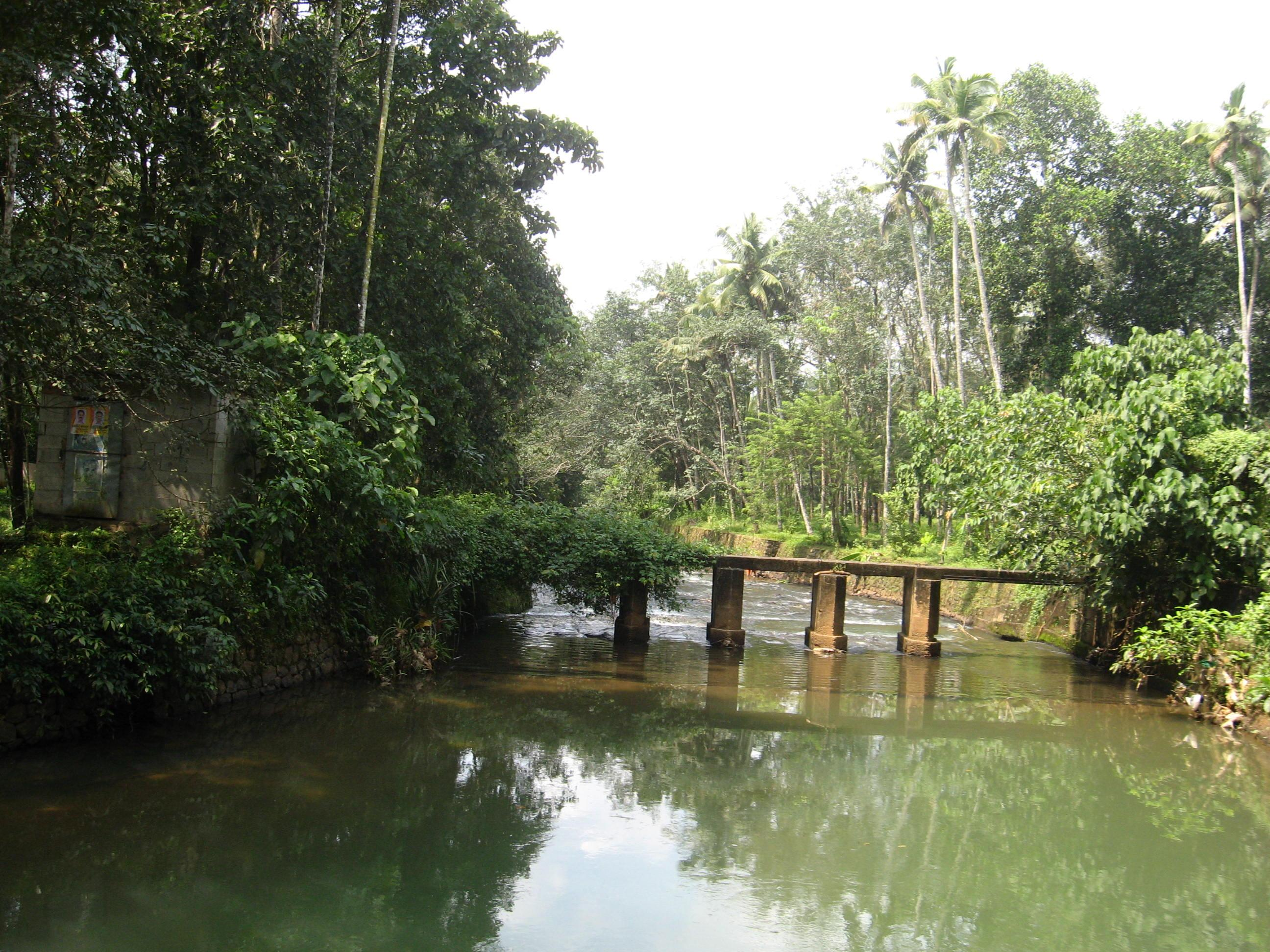 It's the image of Pannagam thodu - Mean Pannagam river. Its from Mattakkara-Kottayam-KERALA-INDIA